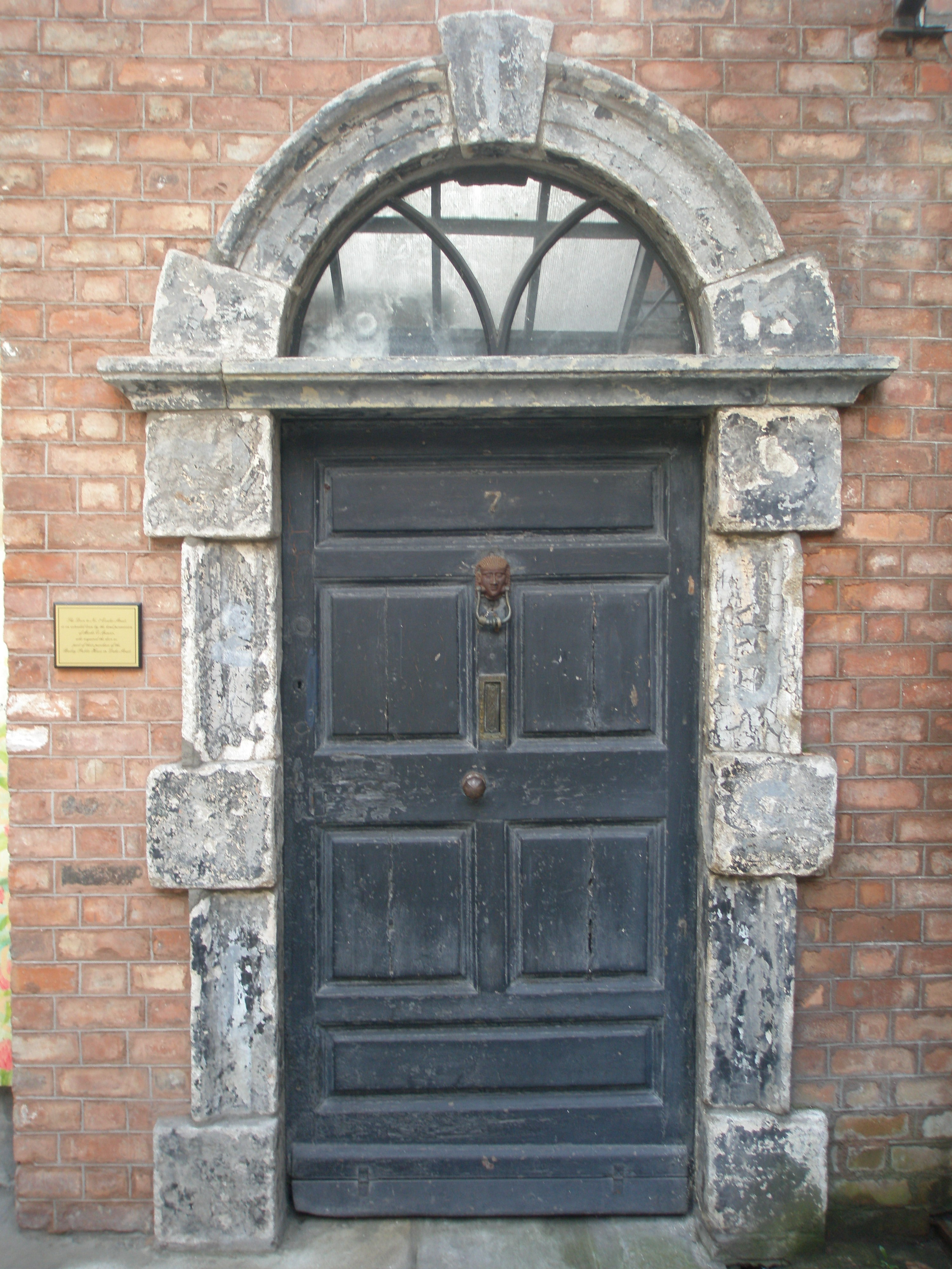 Original front preserved in the James Joyce Centre, Dublin